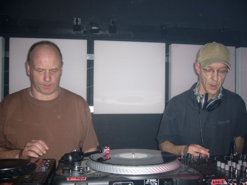 The Orb at Culture Box in Copenhagen. Left to right: Alex Paterson, Thomas Fehlmann.